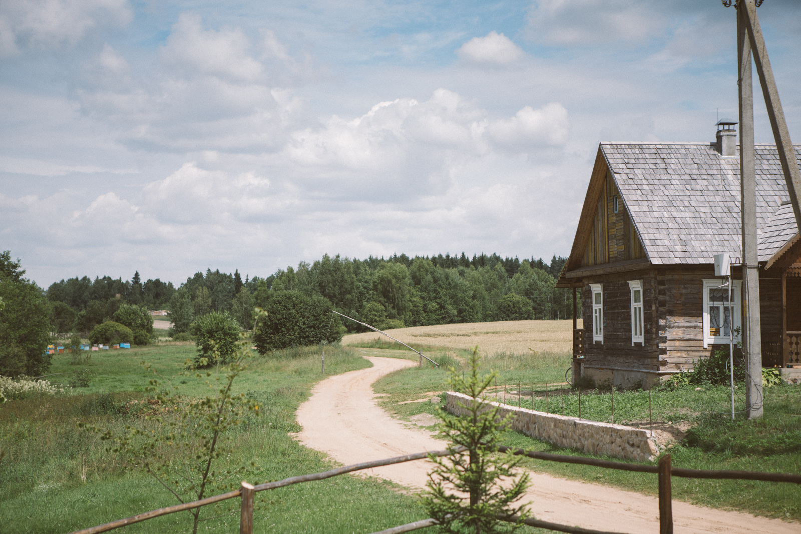 Tinevichy